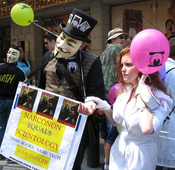 Protesters opposed to Scientology's Narconon organisation, at a protest in New York City on 16 August 2008